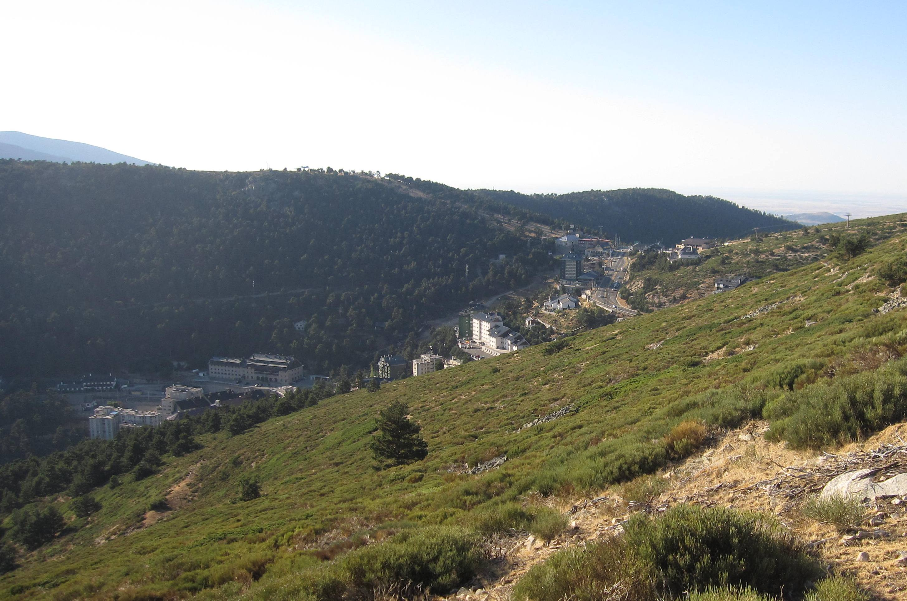 Navacerrada mountain pass (Guadarrama mountain range, central Spain).